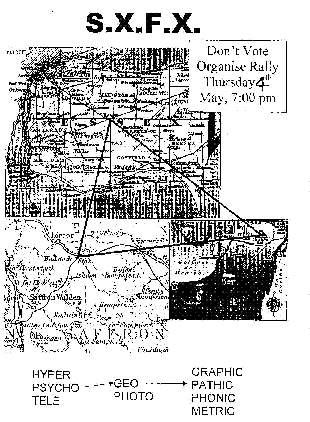 evol psychogeographic